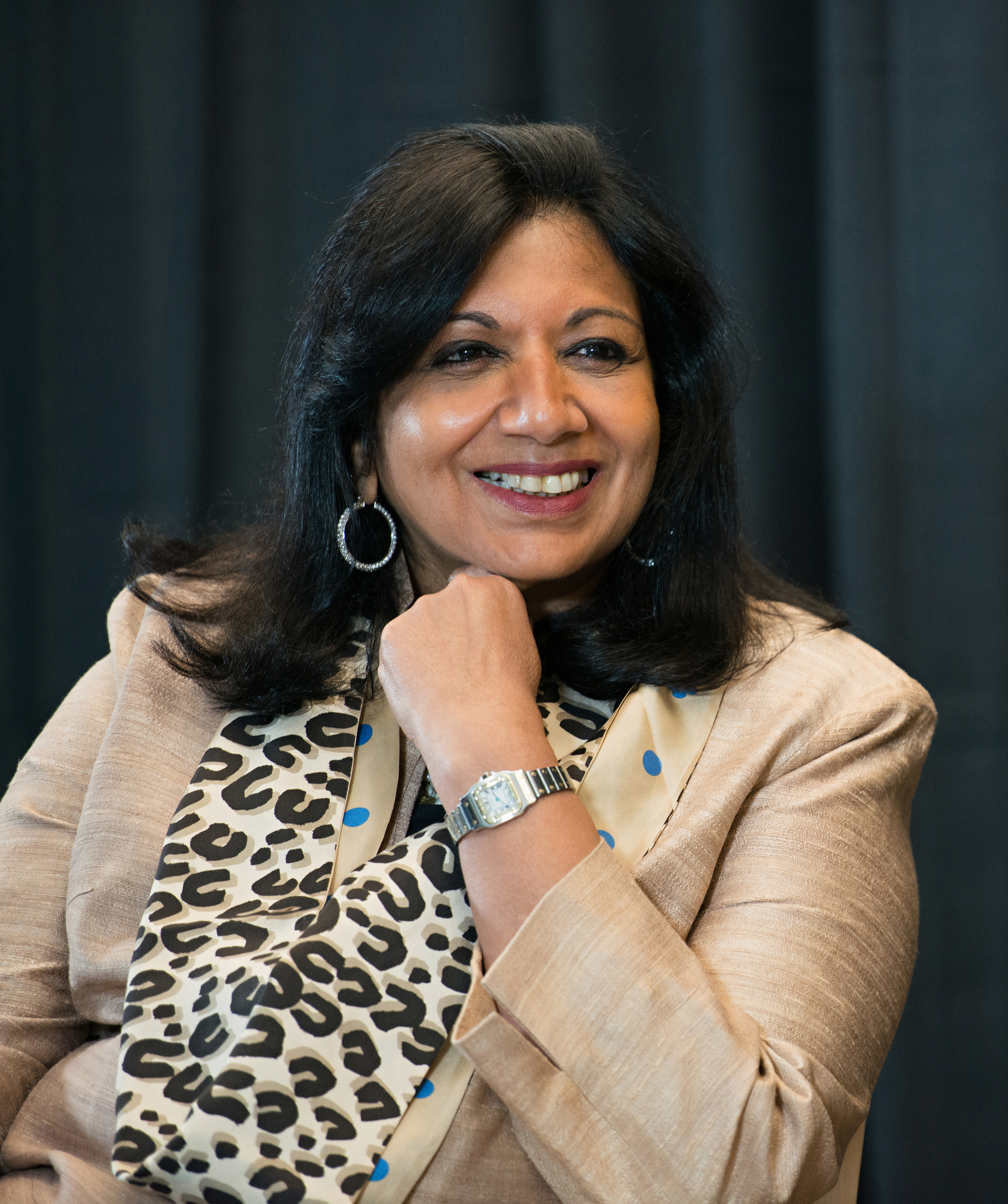 Photograph of chemist Kiran Mazumdar-Shaw, winner of the 2014 Othmer Gold Medal, awarded at Heritage Day, May 15, 2014, at the Chemical Heritage Foundation, Philadelphia, PA.